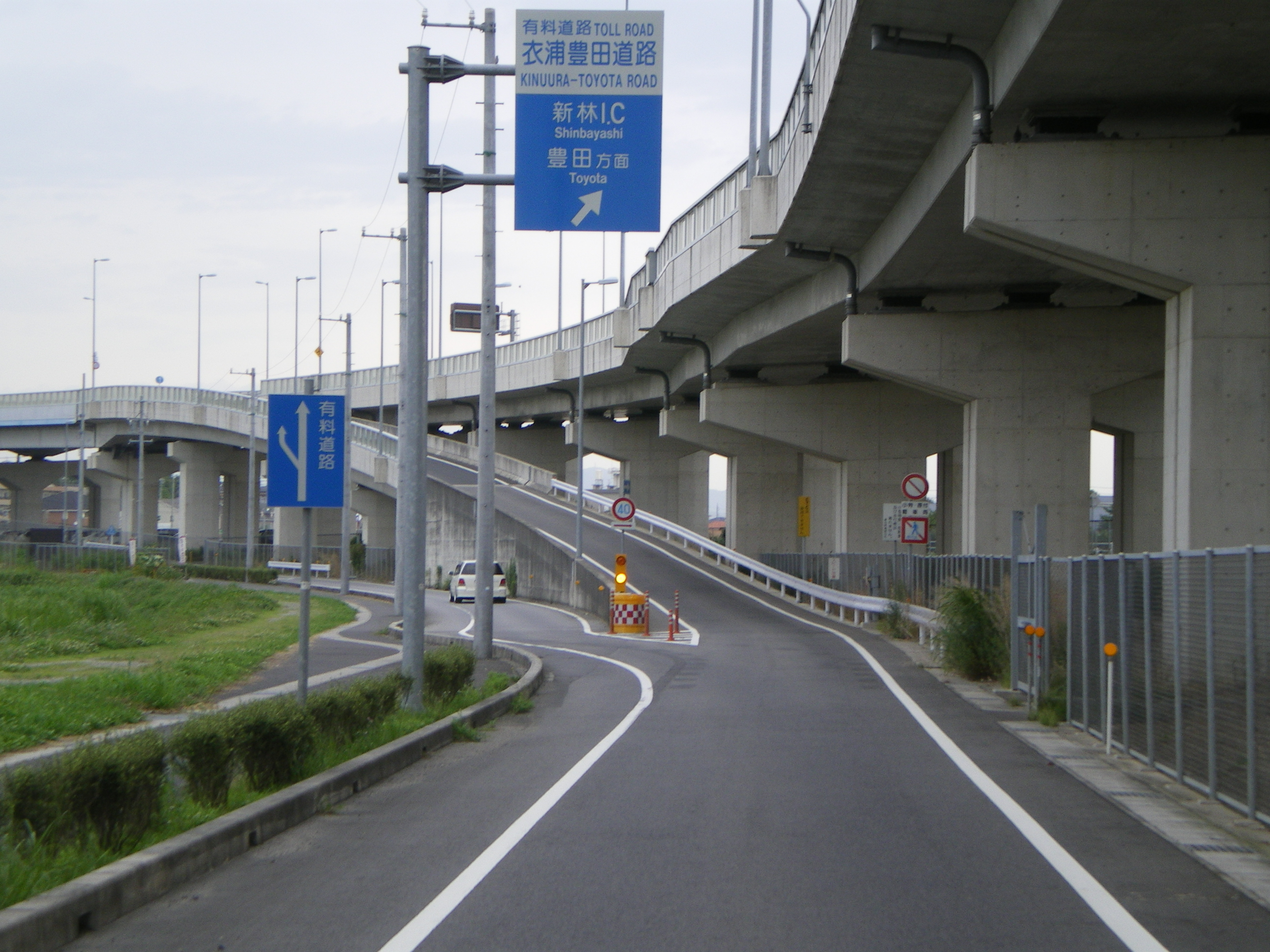 Kinuura-Toyota Road Shinbayashi interchange (for Toyota) Aichi Japan